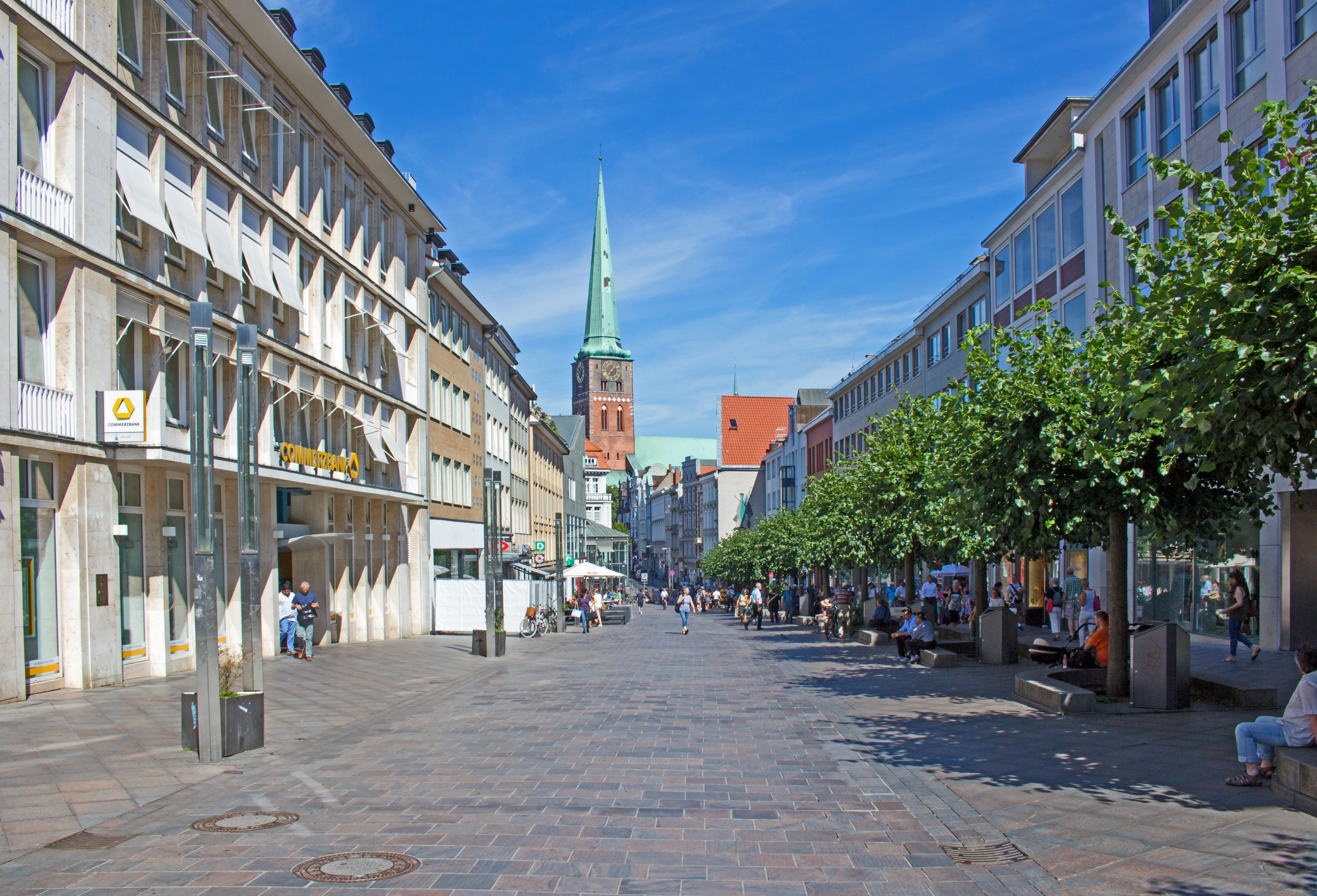 shopping street "Breite Straße", in the background the St. Jakobi church - Hanseatic city of Lübeck, Schleswig-Holstein, Germany